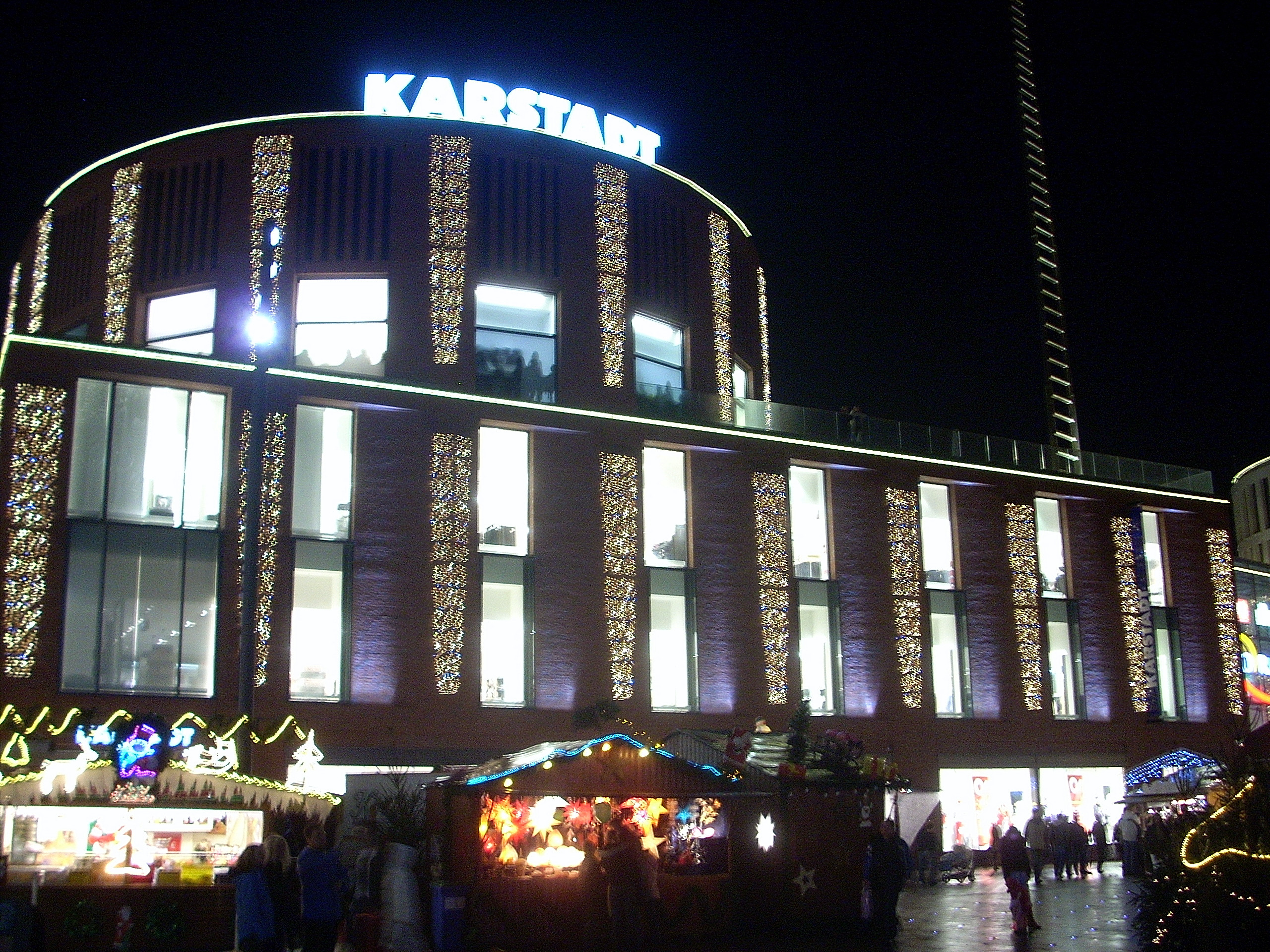 Shopping Mall “Forum Duisburg” in the pre-Christmas period